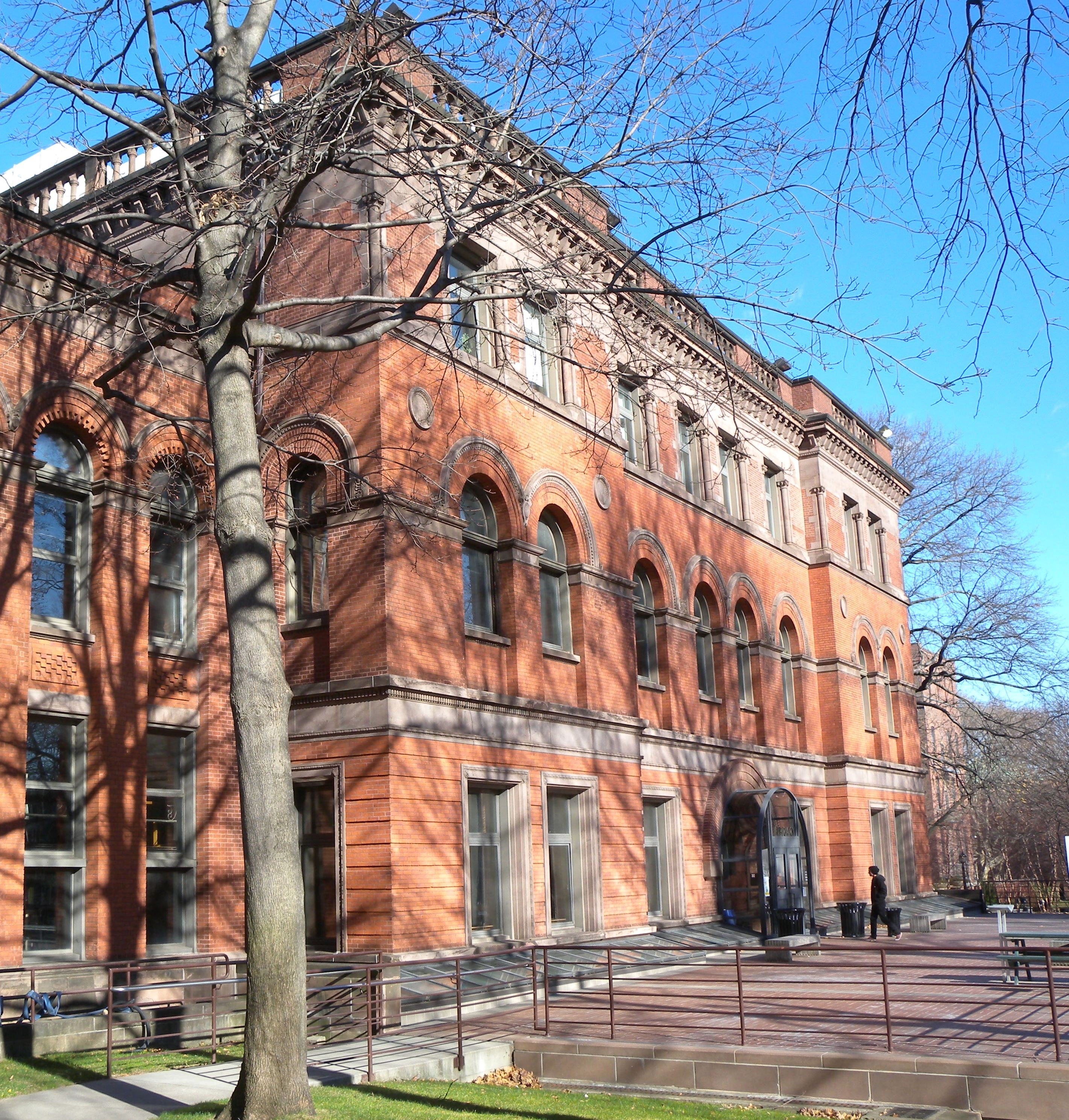 Looking northeast through fence at Pratt library on a sunny midday.